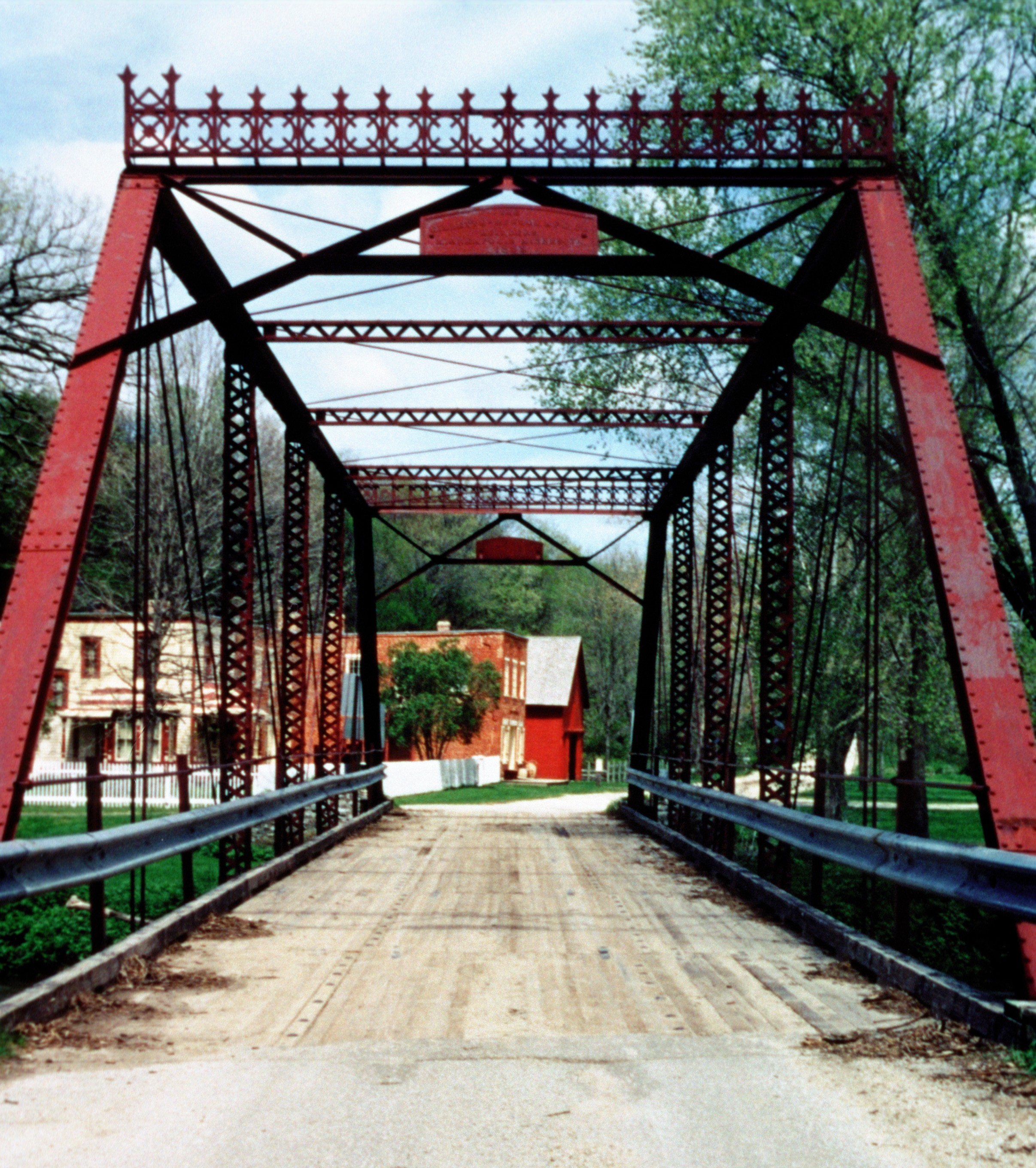 Forestville State Park Bridge (MN). Public domain. Submitted to FHWA with America's Byways 2002 Nomination Application.